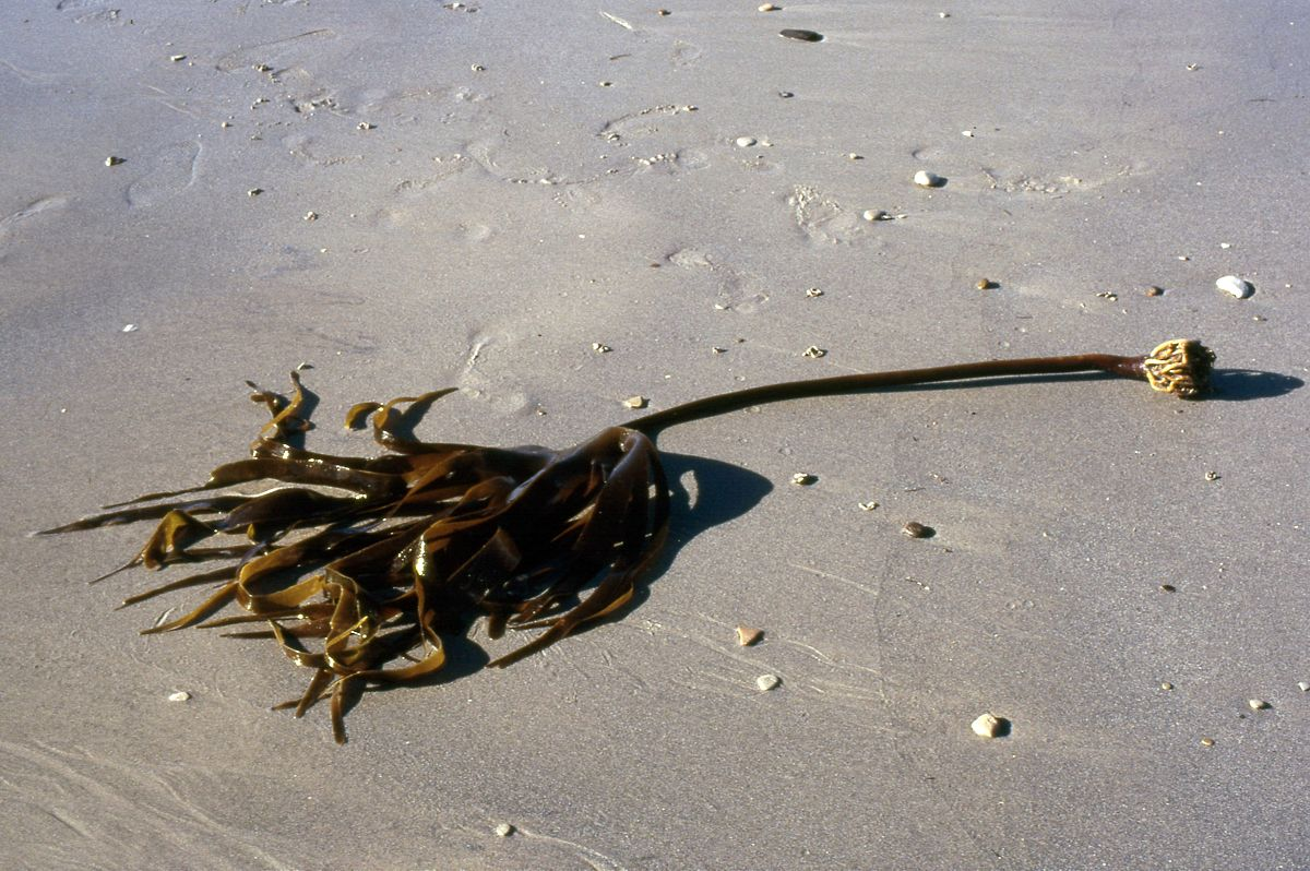 Laminaria digitata or Laminaria hyperborea, Heligoland (Germany)